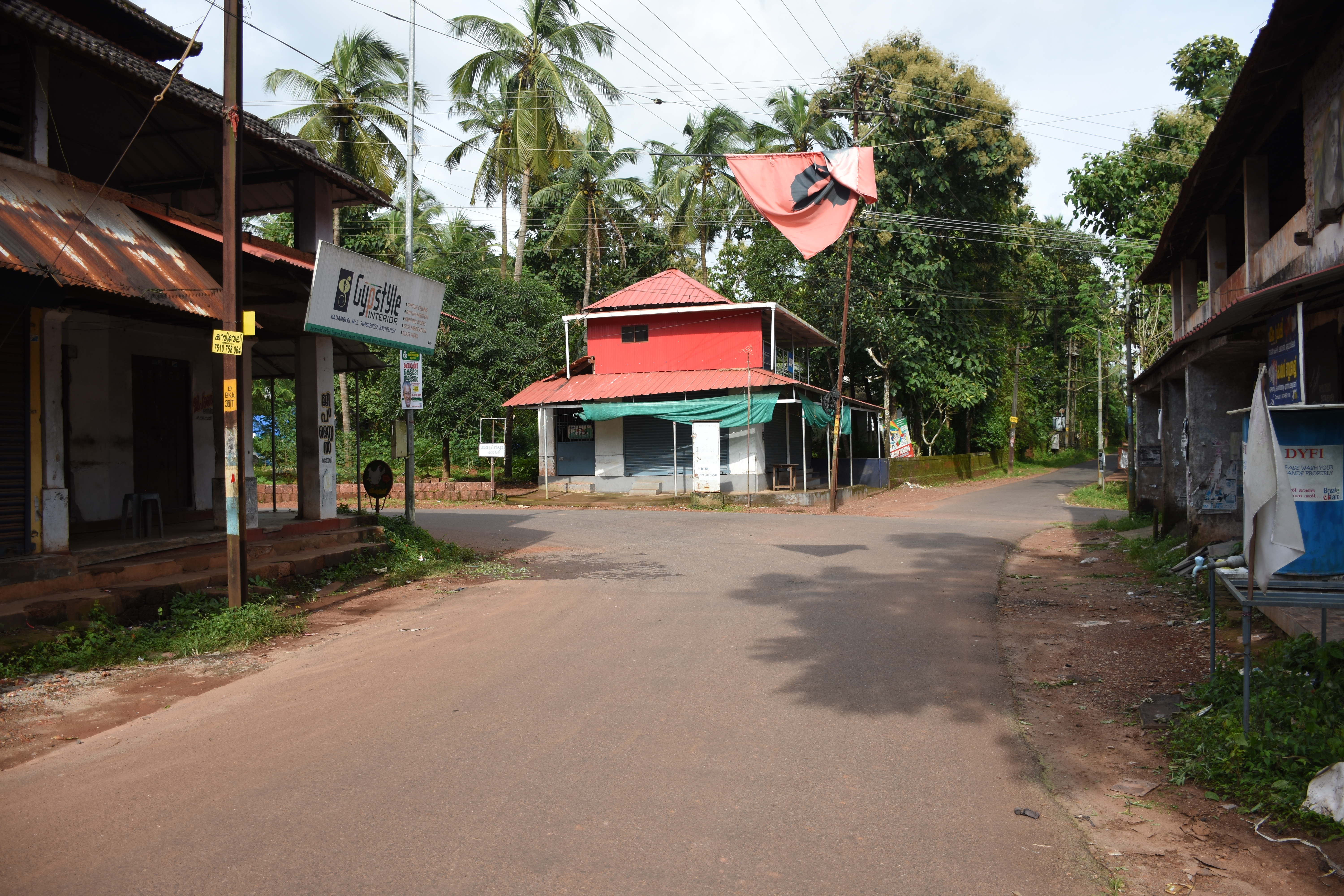 view from Bakkalam-Kadambery road